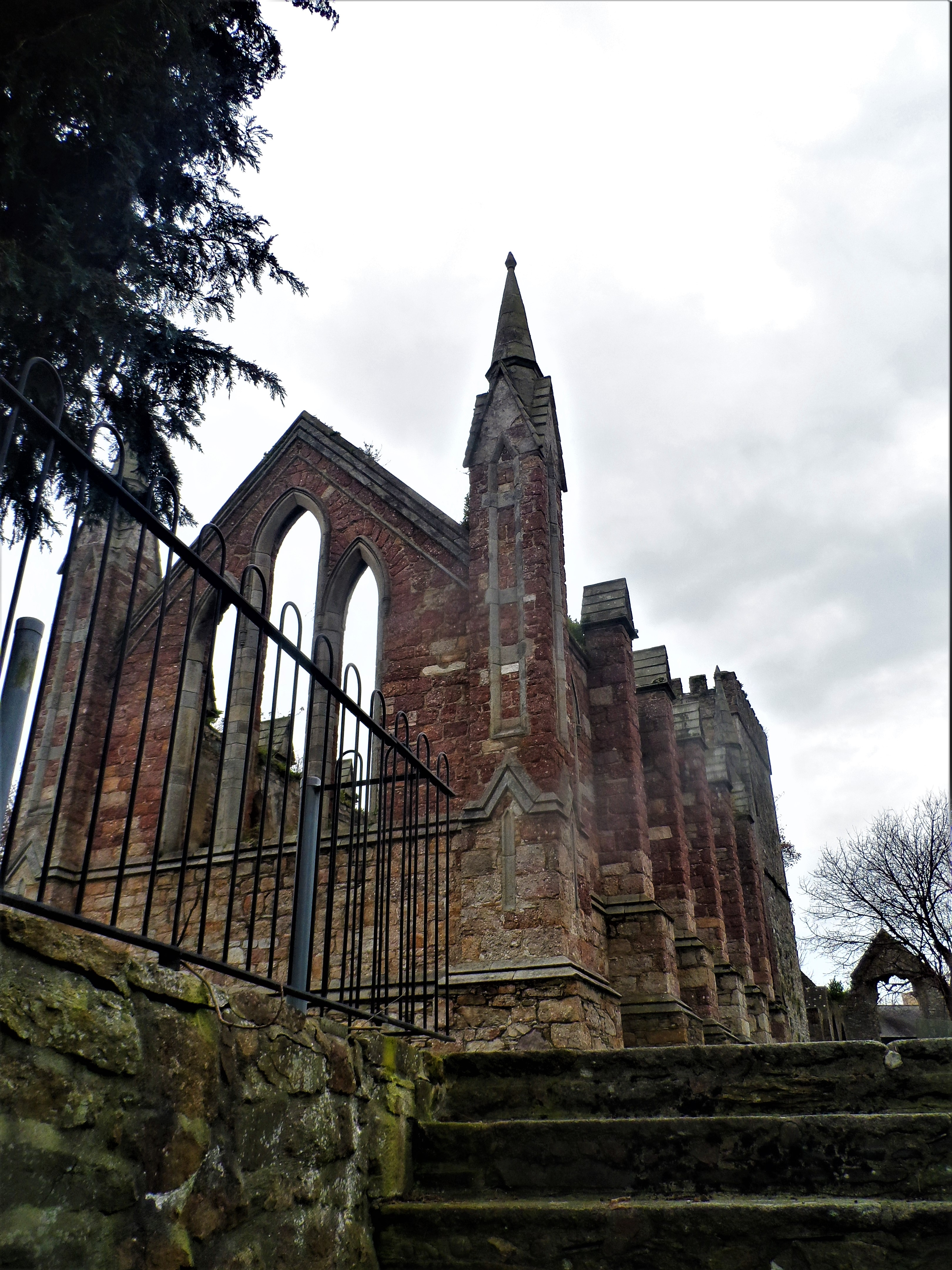 Selskar 3